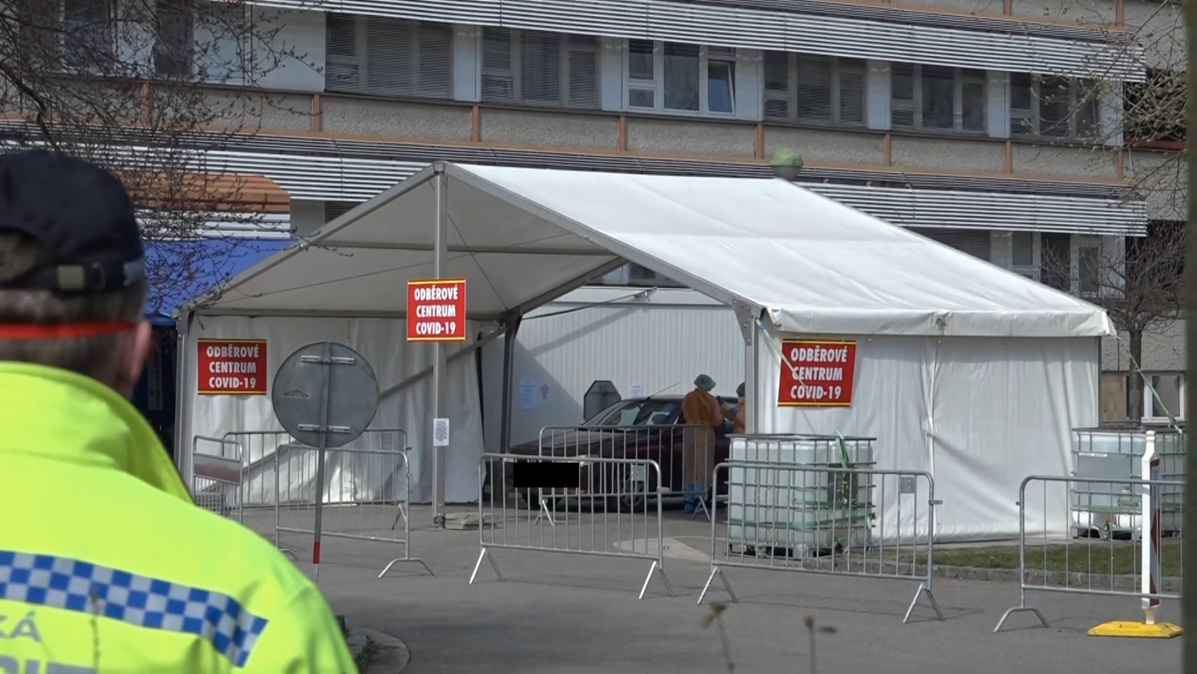 A tent operating as a drive-trhu COVID-19 testing site in front of the University Hospital Hradec Kralove in Czechia.